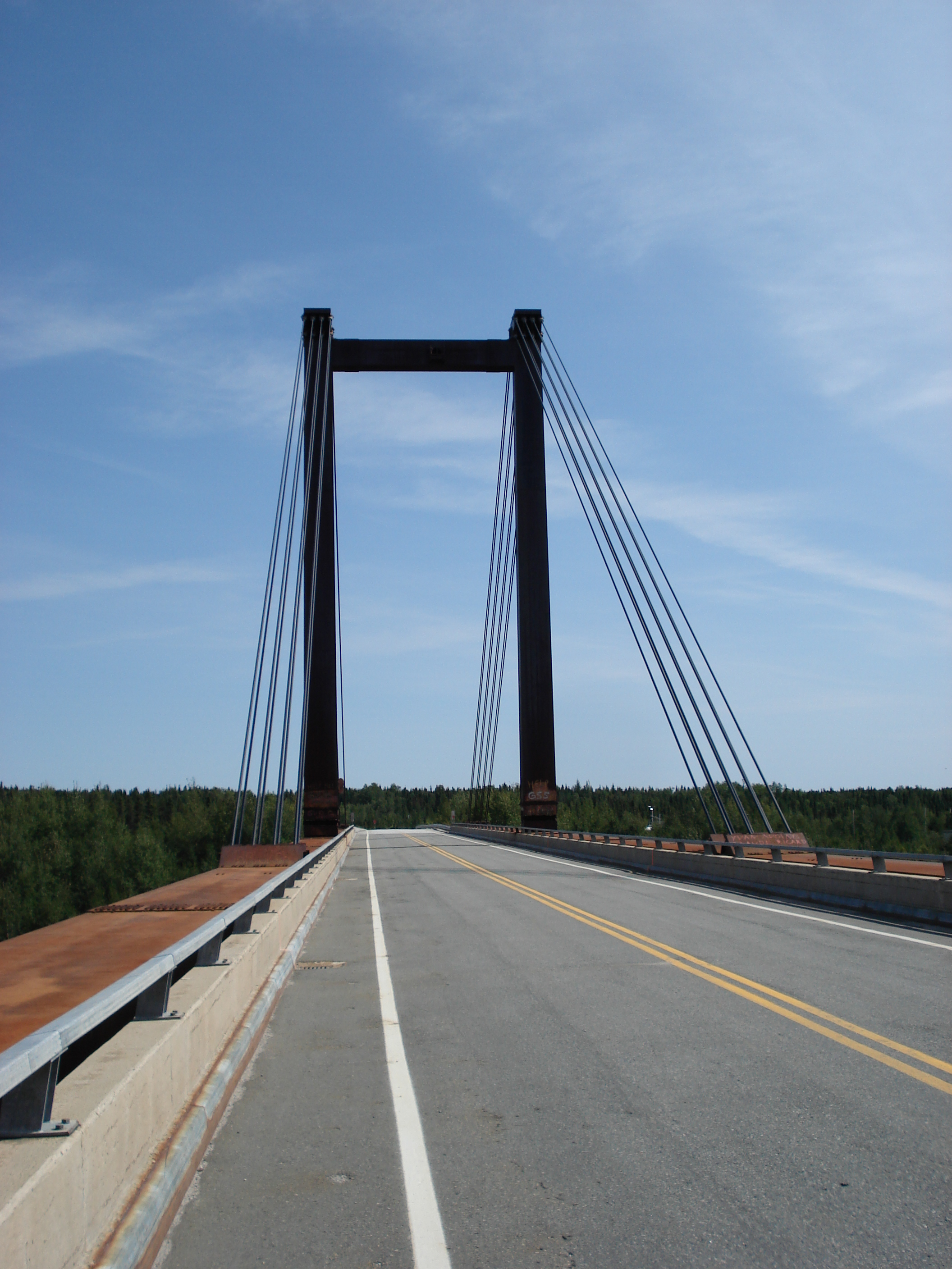 The Rupert River bridge is a 174-meter long cable-stayed bridge located at kilometer 257 on the James Bay Road, in northern Quebec. It was built as part of the James Bay Project in the early 1970s.